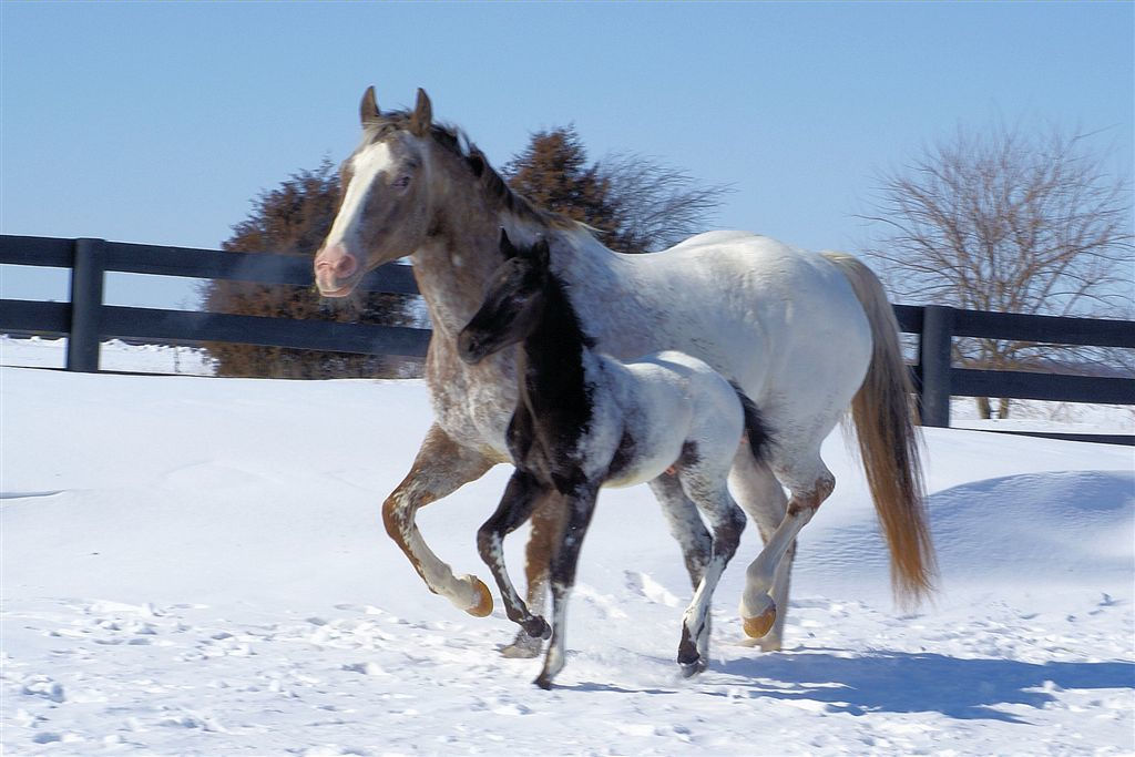 This photo was taken by me William Thiel of our horses Frosty (mare) and Chief (foal) at our farm Saddlebrook Appaloosas